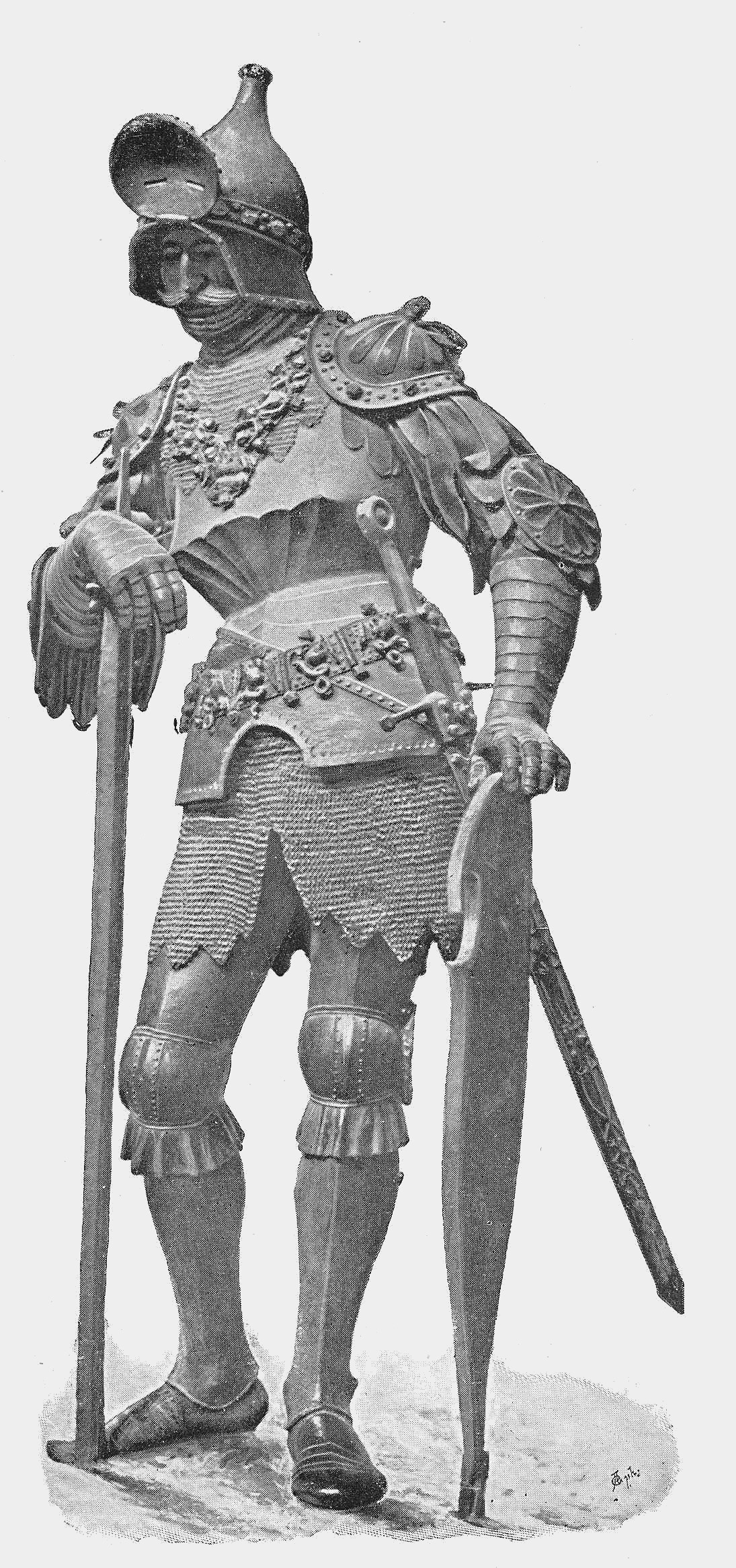 Bronze statue of Theodoric the Great (identified in the relevant caption as "Theodoric, King of the East-Goths, from the monument of the Emperor Maximillian in the Franciscan church at Innsbruck."). The work of Peter Vischer the Elder completed 1513 according to Headlam[1] (Headlam attributes the paired Arthur bronze to Peter Vischer the Younger, while Helmolt labels the Arthur as being probably cast by Paul Vischer.)